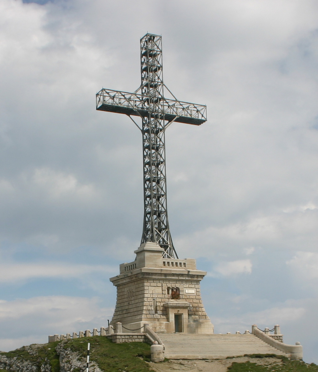 Photo by User:Angelbo taken July 2005. Caption: Orthodox cross at the summit of Caraiman, Sinaia, Romania elevation is 2506 meter.